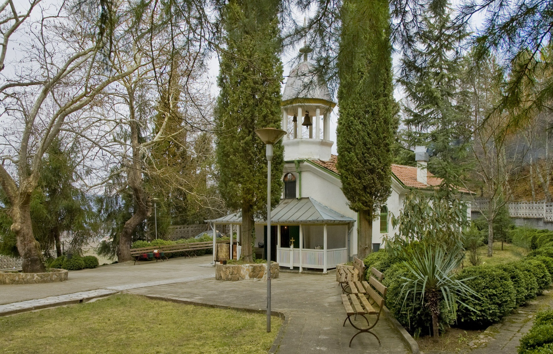 Church "Sv. Petka" - Petrich city